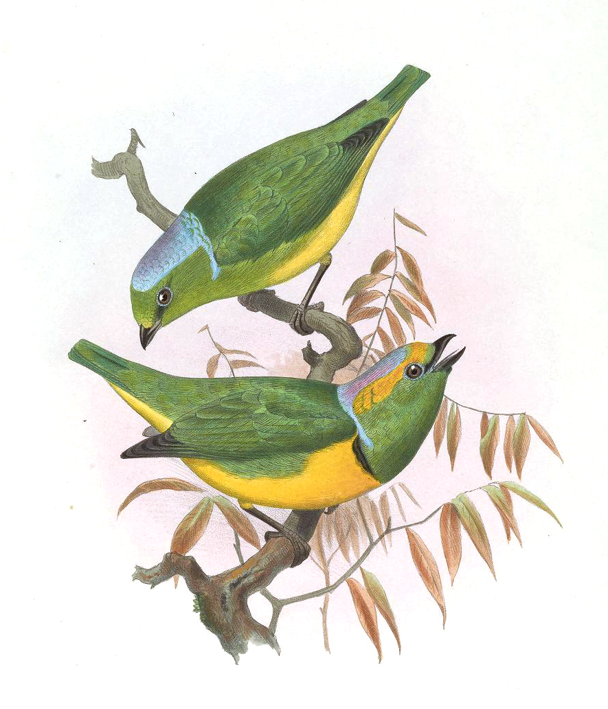 Chlorophonia calophrys